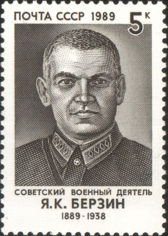 A USSR stamp